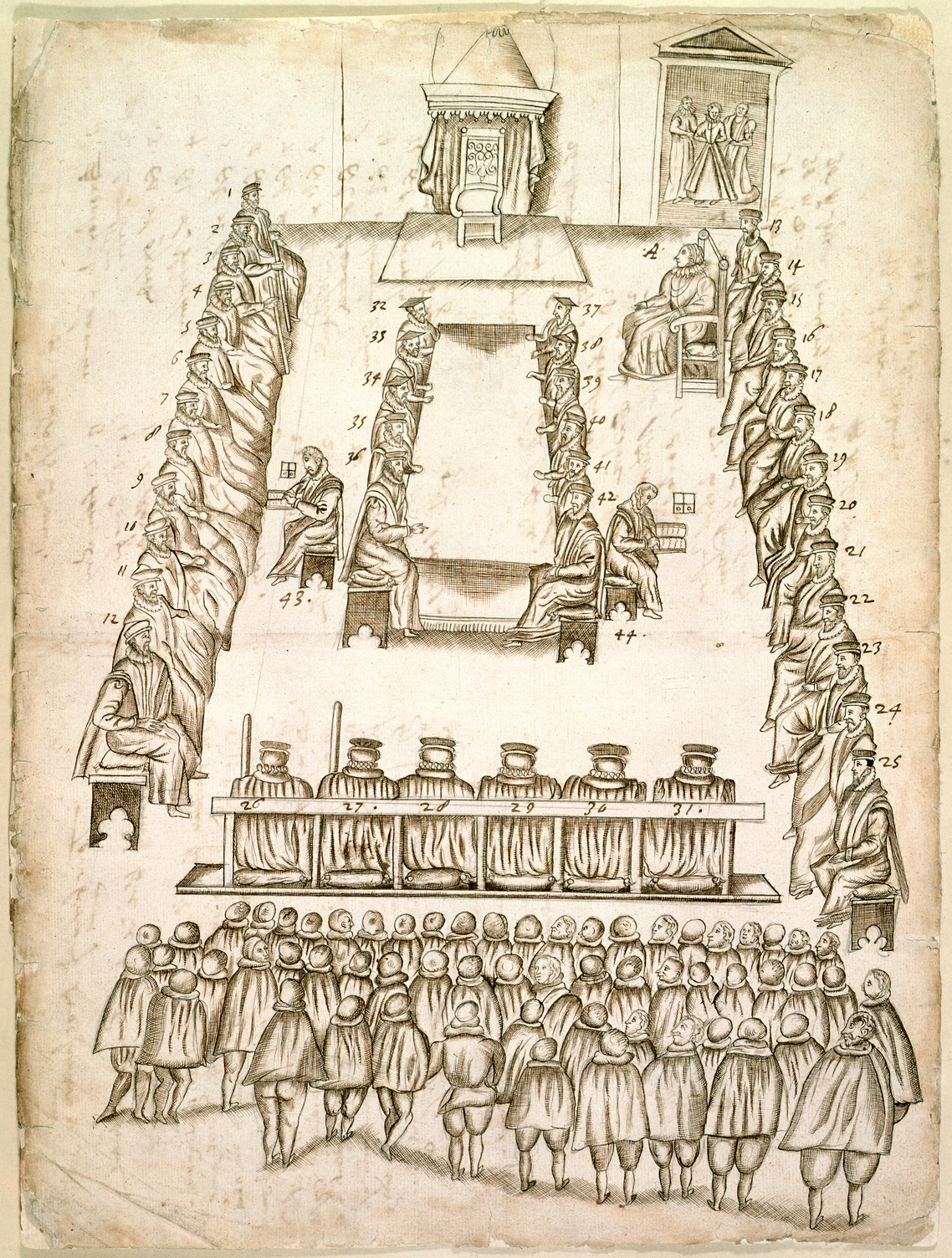 Trial of Mary, Queen of Scots [Whole drawing] Drawing of the trial of Mary, Queen of Scots, in the Great Chamber at Fotheringay Castle, co. Northants., 14-15 October 1586